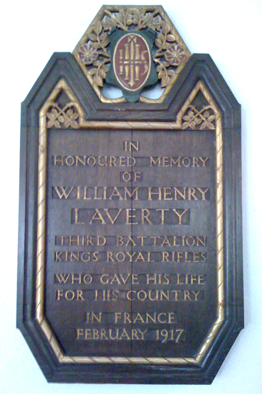 Memorial to William Henry Laverty, killed in WW1